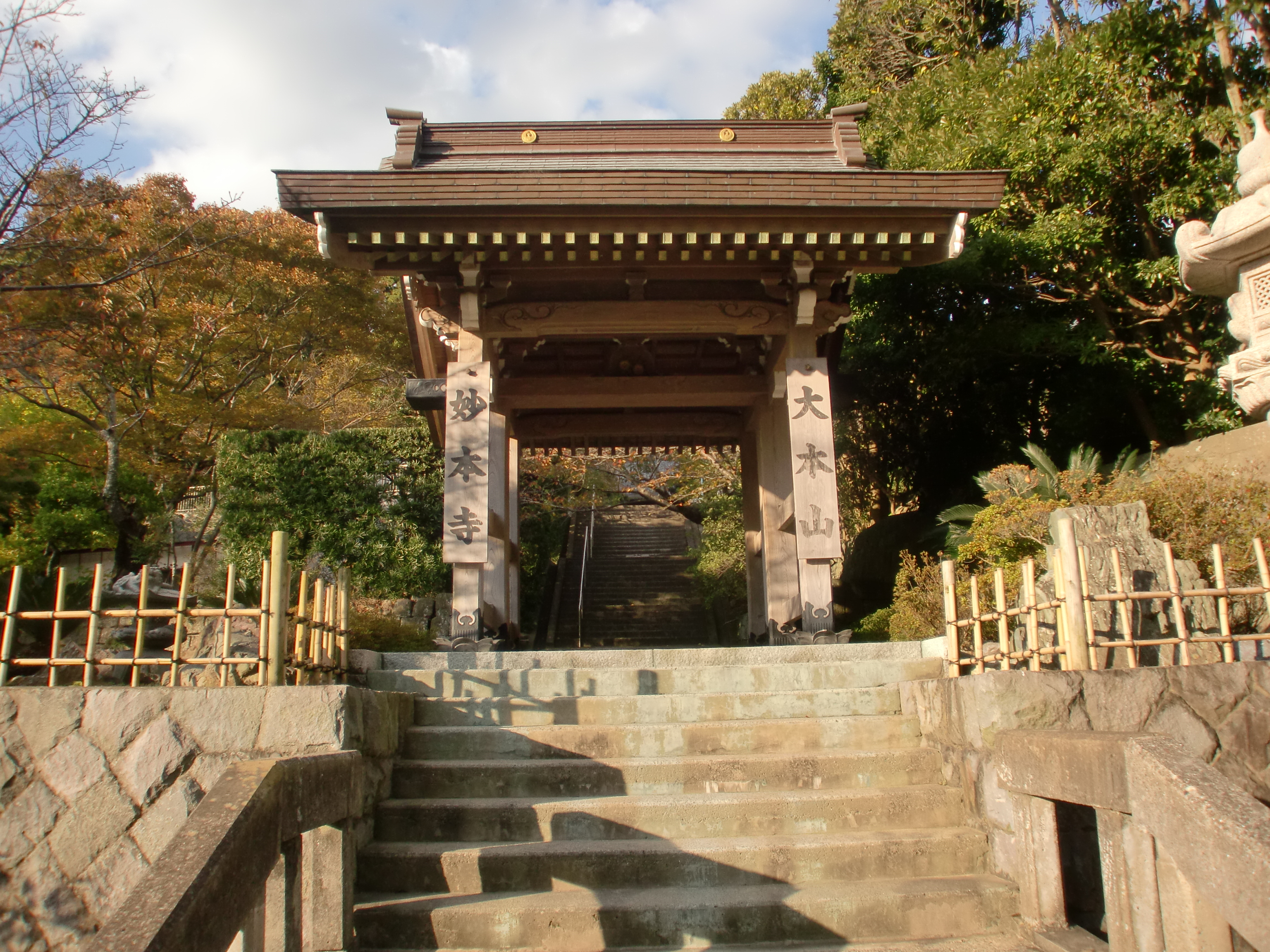 Gate of the Myohon-ji temple in Kyonan Town, Chiba Prefecture, Japan